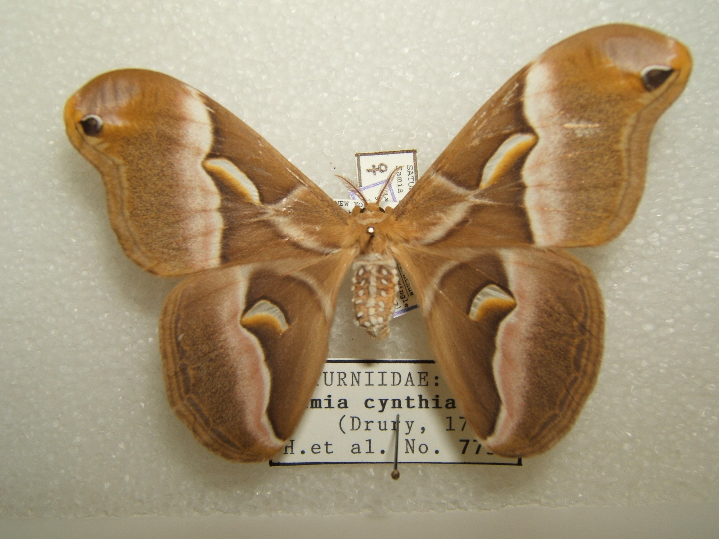 Samia cynthia adult female taken by Shawn Hanrahan at the Texas A&M University Insect Collection in College Station, Texas.